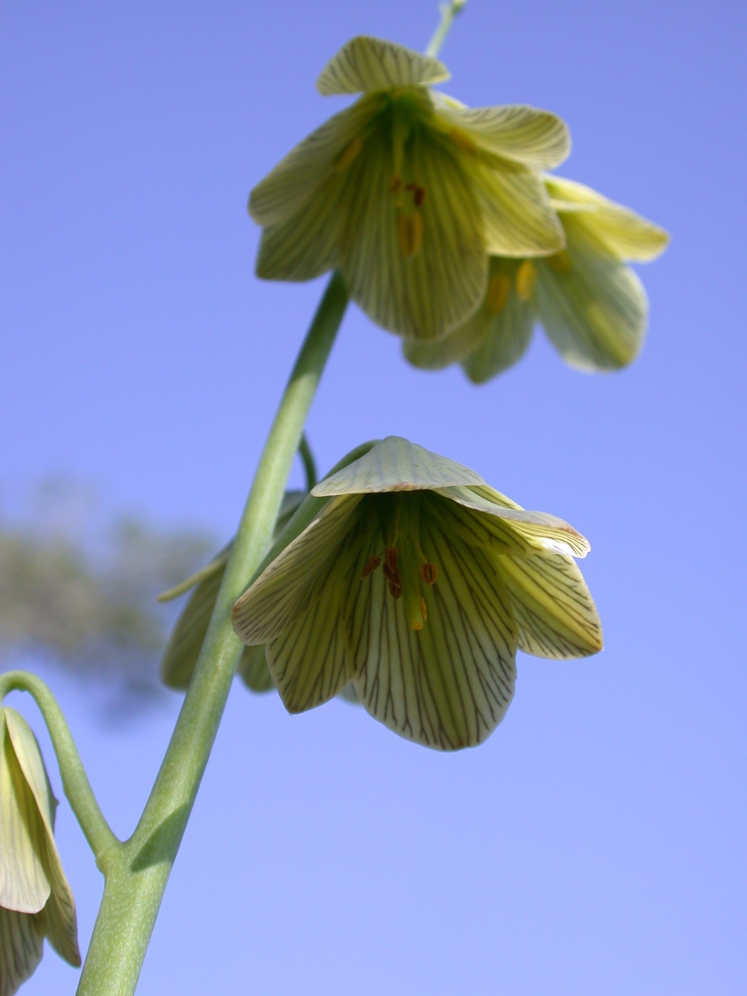 Fritillaria persica L. (גביעונית הלבנון), Nachal Oren, Mount Carmel, Israel, February 6, 2006. Other names: Fritillaria arabica Gandoger; Fritillaria libanotica (Boiss.) Baker.